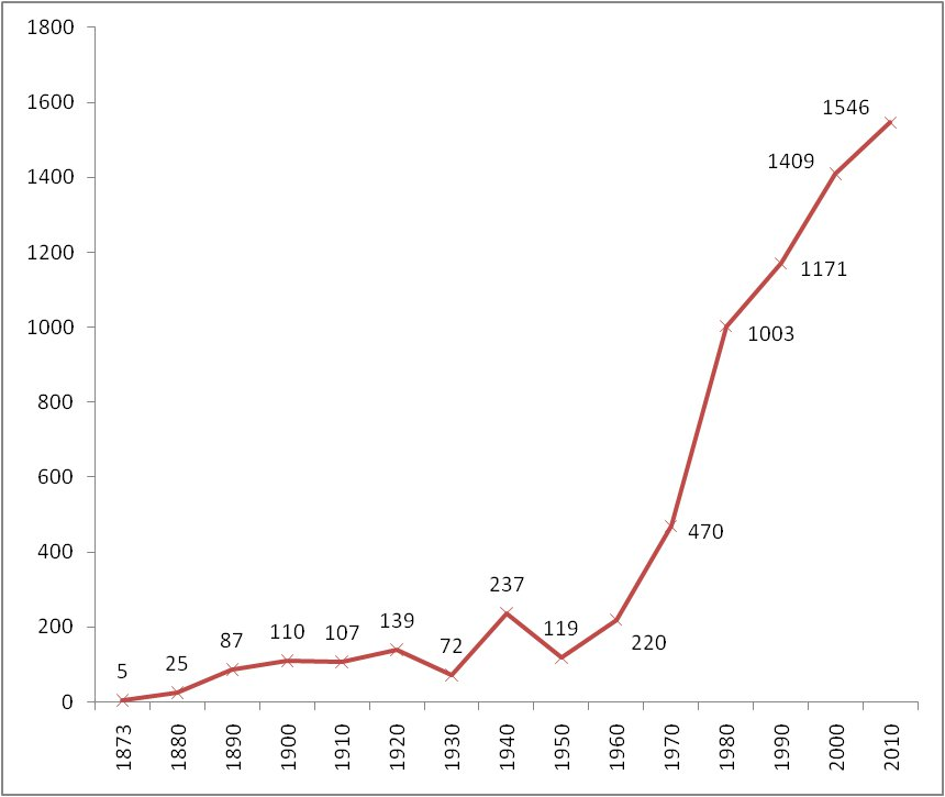 Number of Pupils at the HTBLuVA Wiener Neustadt from 1873 to 2010